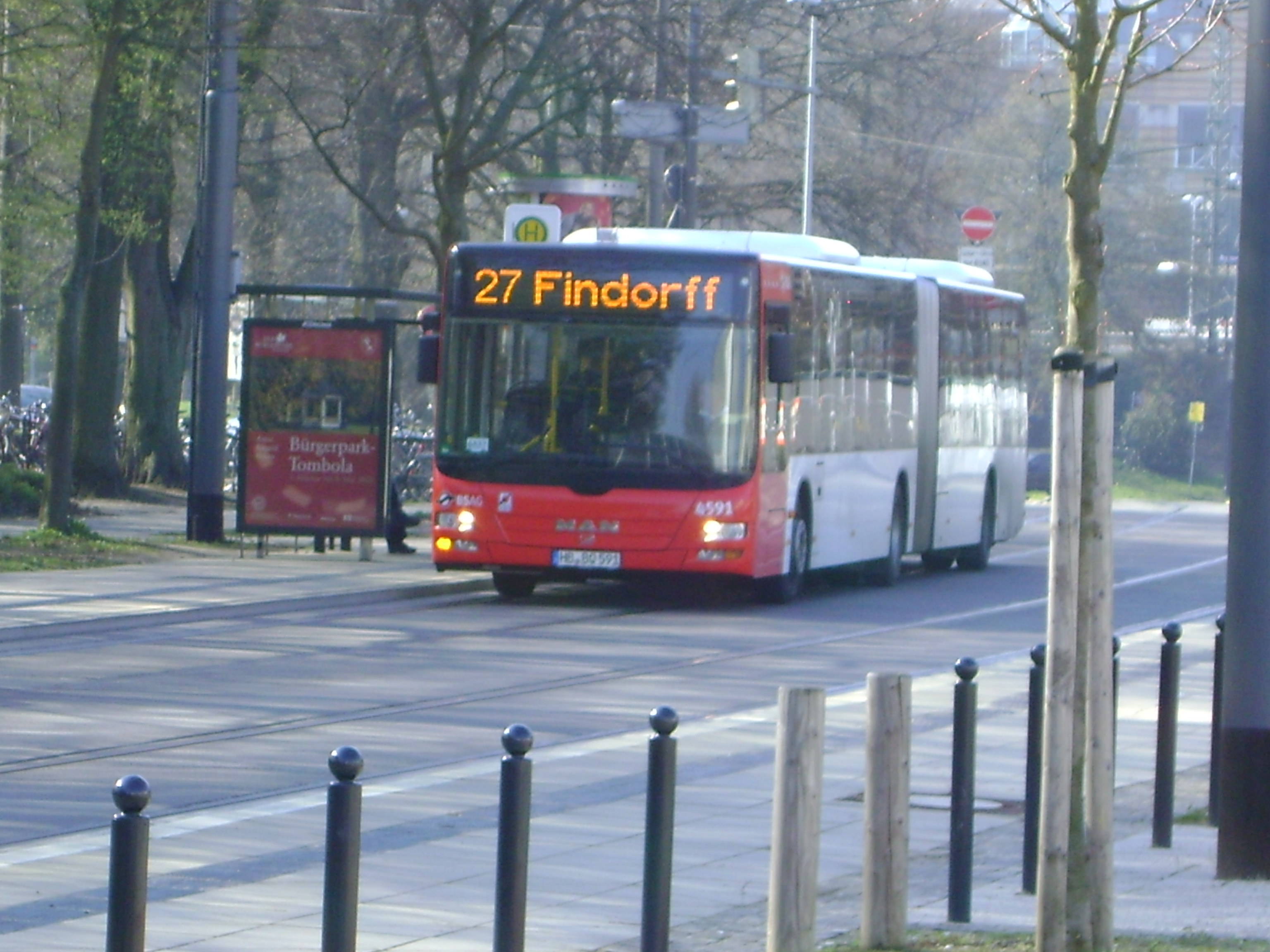 MAN NG 323 Lion's City GL (A23) bus (#4591) in Bremen, Germany. Built 2009, BSAG Bremen operator.